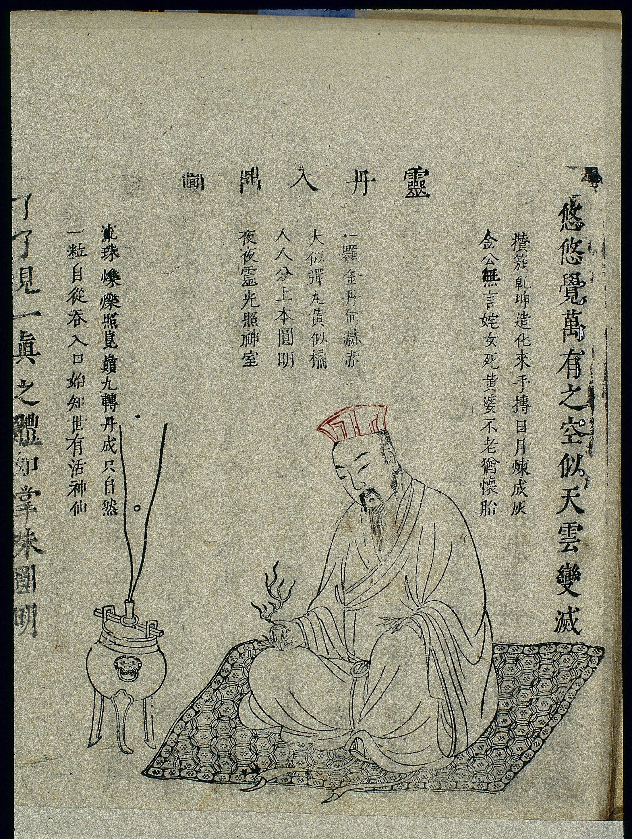 Woodcut illustration of 'Putting the miraculous elixir on the tripod' fromXingming guizhi(Pointers on Spiritual Nature and Bodily Life) by Yi Zhenren, a Daoist text on internal alchemy published in 1615 (3rd year of the Wanli reign period of Ming dynasty). (Cataloguing incomplete) Wellcome Images Keywords: Daoism; Medicine, Chinese Traditional; Internal alchemy; Qigong